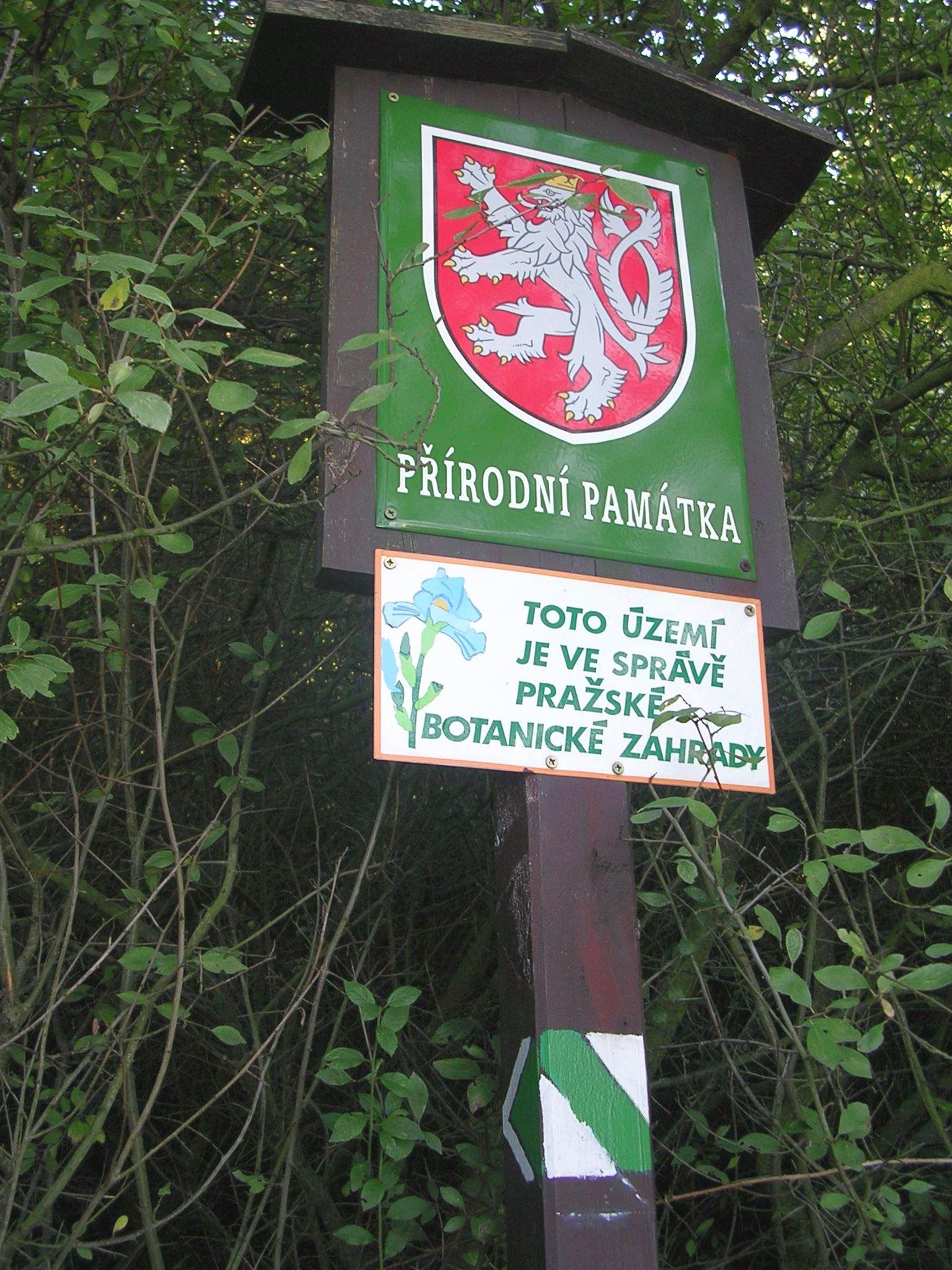 Prague, Troja. Sign of the nature preserve Havránka.